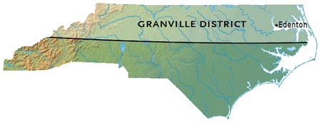 The division of proprietary rights between the Carteret Family and the crown in the Province of North Carolina between 1729-1776